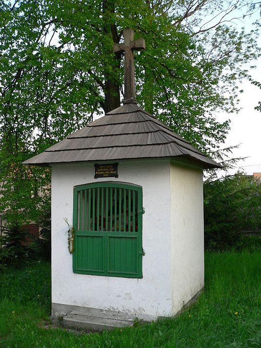 Village chapel in Mosty u Českého Těšína (Mosty koło Cieszyna), Czech Republic.